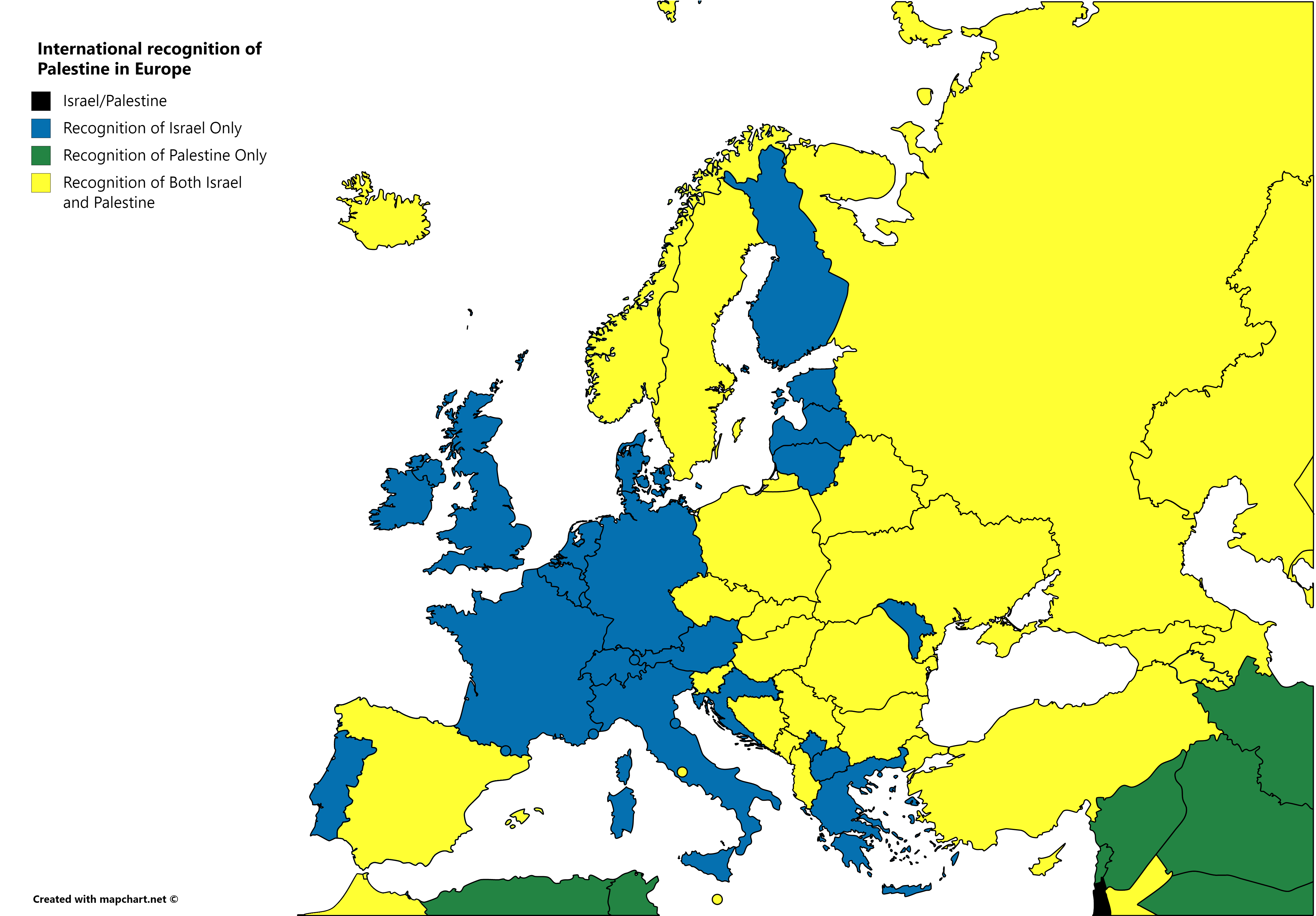 Map of International Recognition of Israel and Palestine in Europe